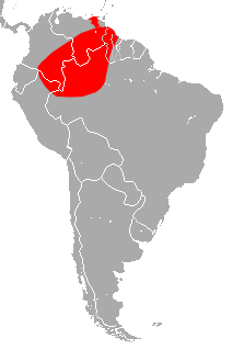 Greater Ghost Bat (Diclidurus ingens) range